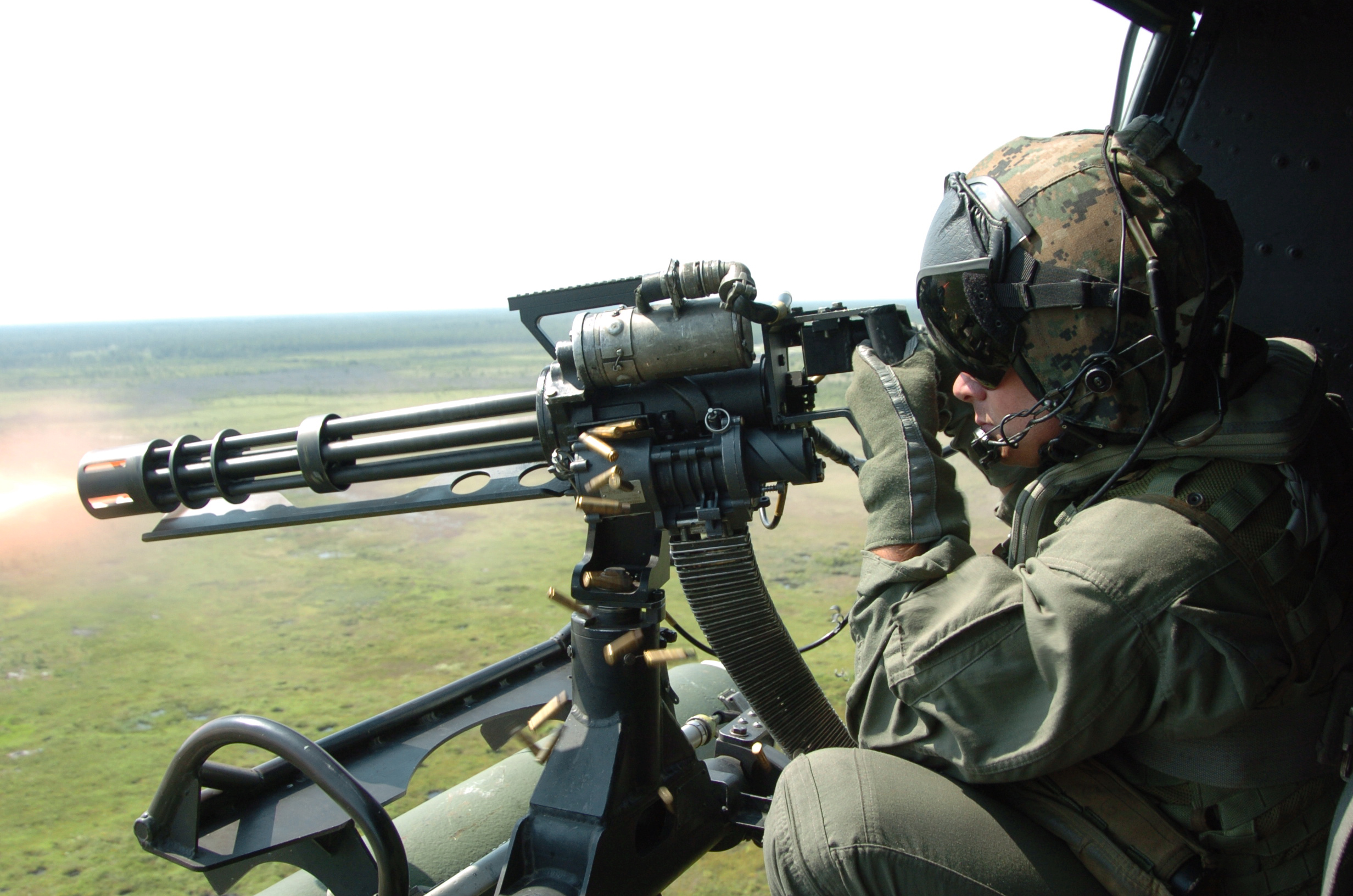 Sergeant Earl M. Day, HML/A-167 crew chief instructor and Amesbury, Ma., native, fires the GAU-17 weapon system from a UH-1N “Huey.” The GAU-17, a six-barrel Gatling gun, can fire up to 3,000 rounds per minute. Photo ID: 2006889753 Submitting Unit: MCAS New River Photo Date:07/11/2006